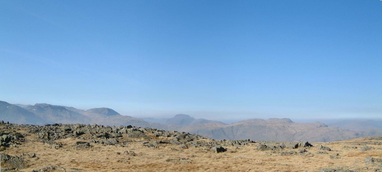 Personal photograph taken on 19th March 2003 by Mick Knapton